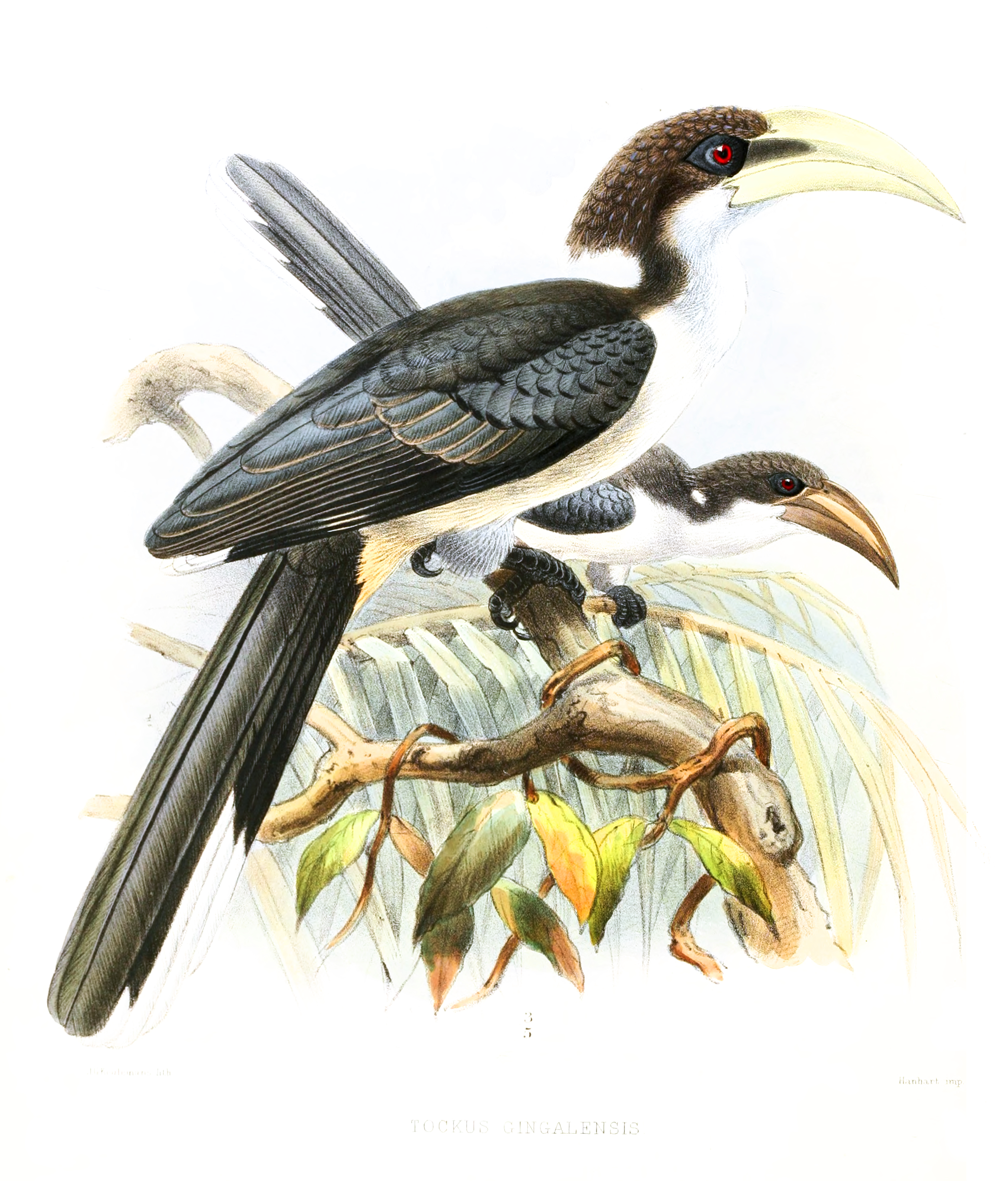 Ocyceros gingalensis